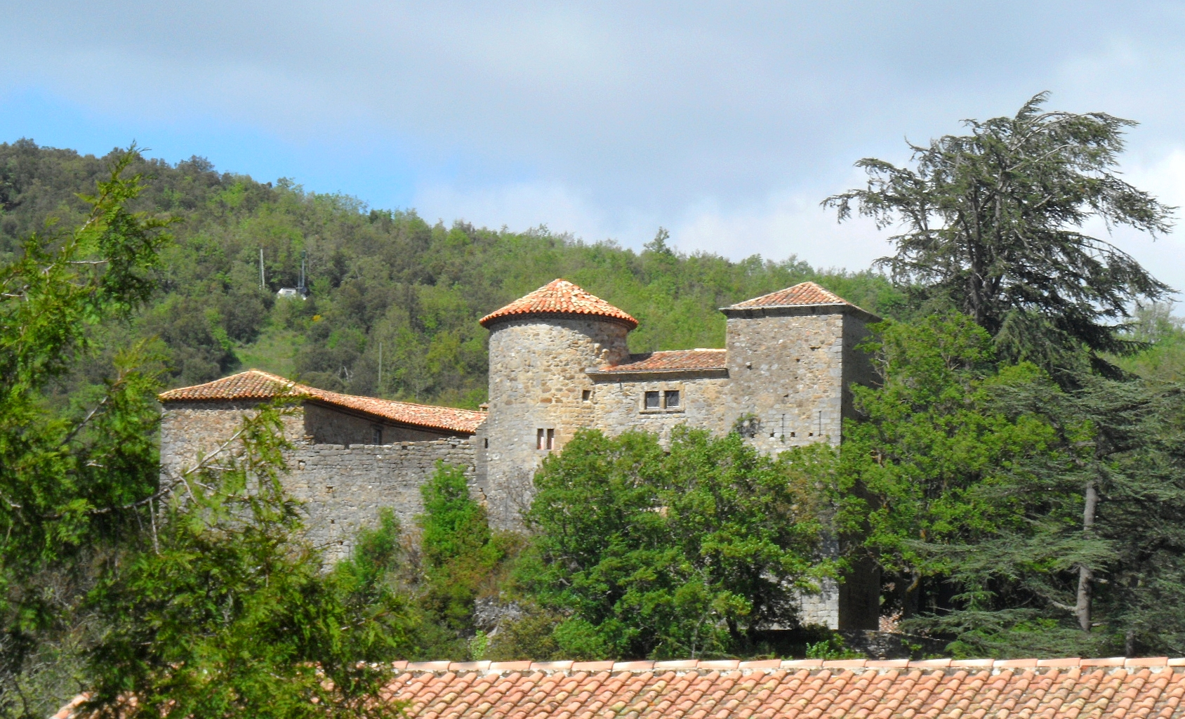 Castle in Lanet, Aude, France